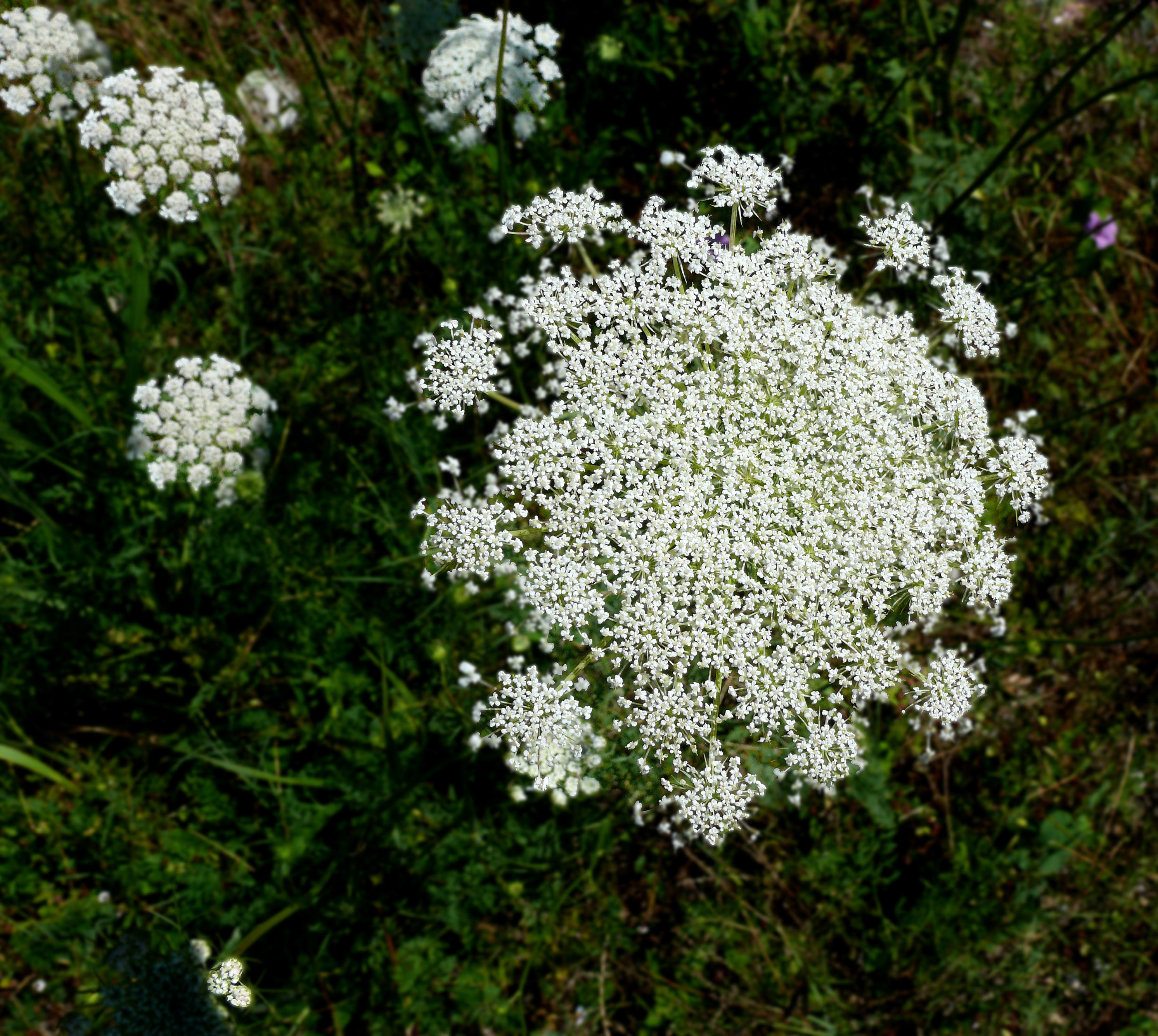 Queen Anne's Lace -- Daucus carota